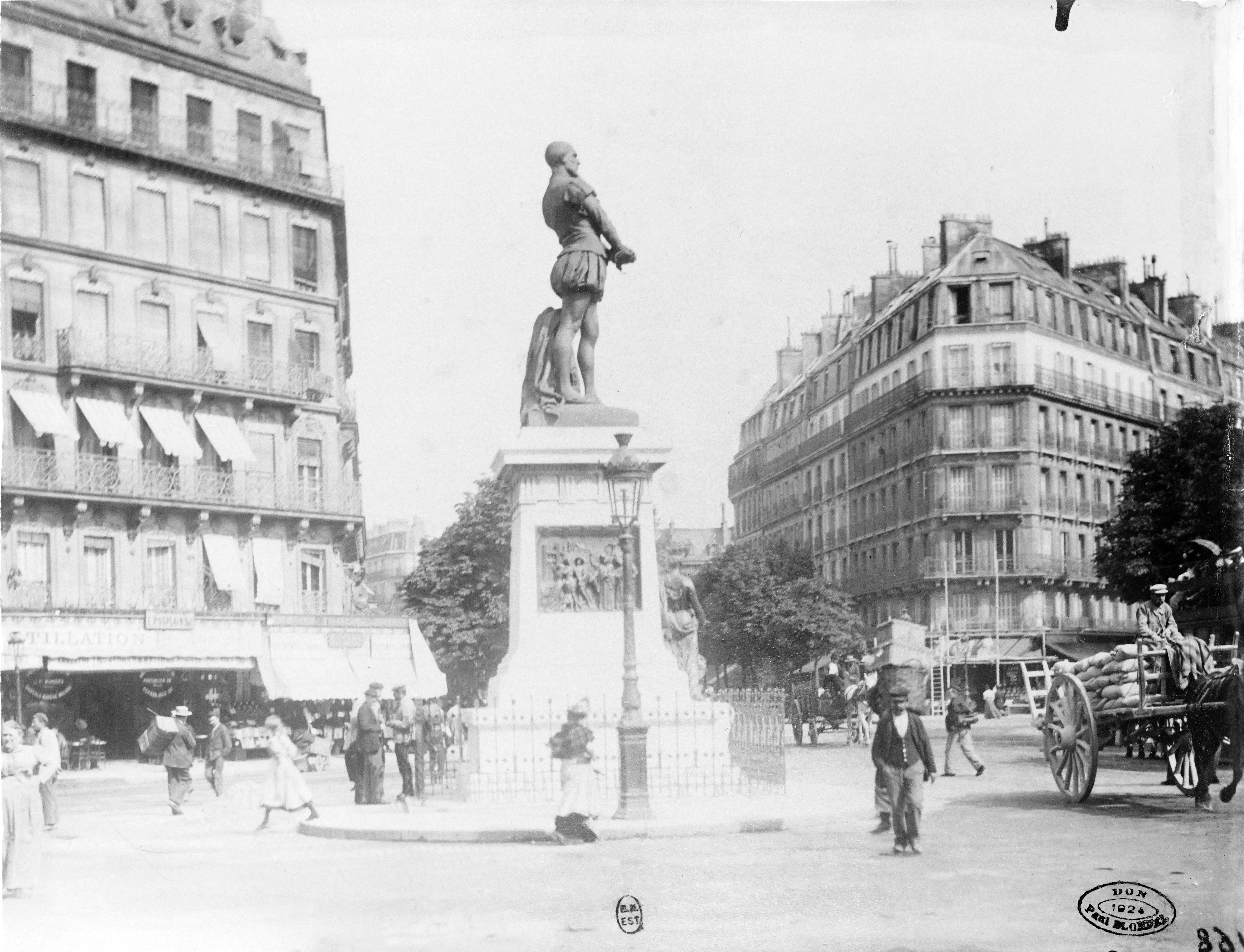 View of place Maubert in Paris in 1899 by the photographer Eugène Atget. Statue of Étienne Dolet, 1886/1889 destroyed in 1942, by Ernest Charles Démosthène Guilbert (French, born in 1848).